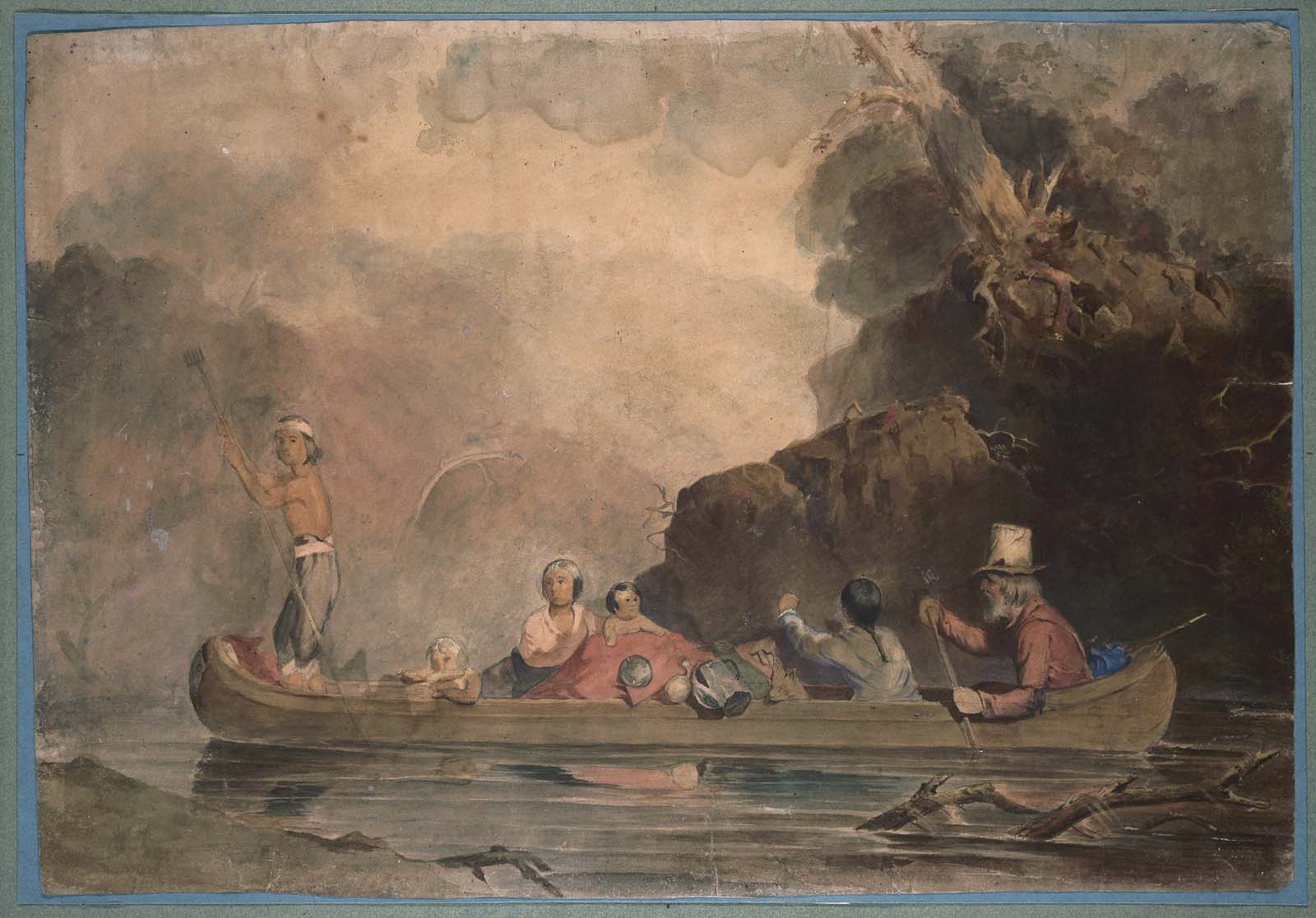 The Trapper and his Family, by Charles Deas